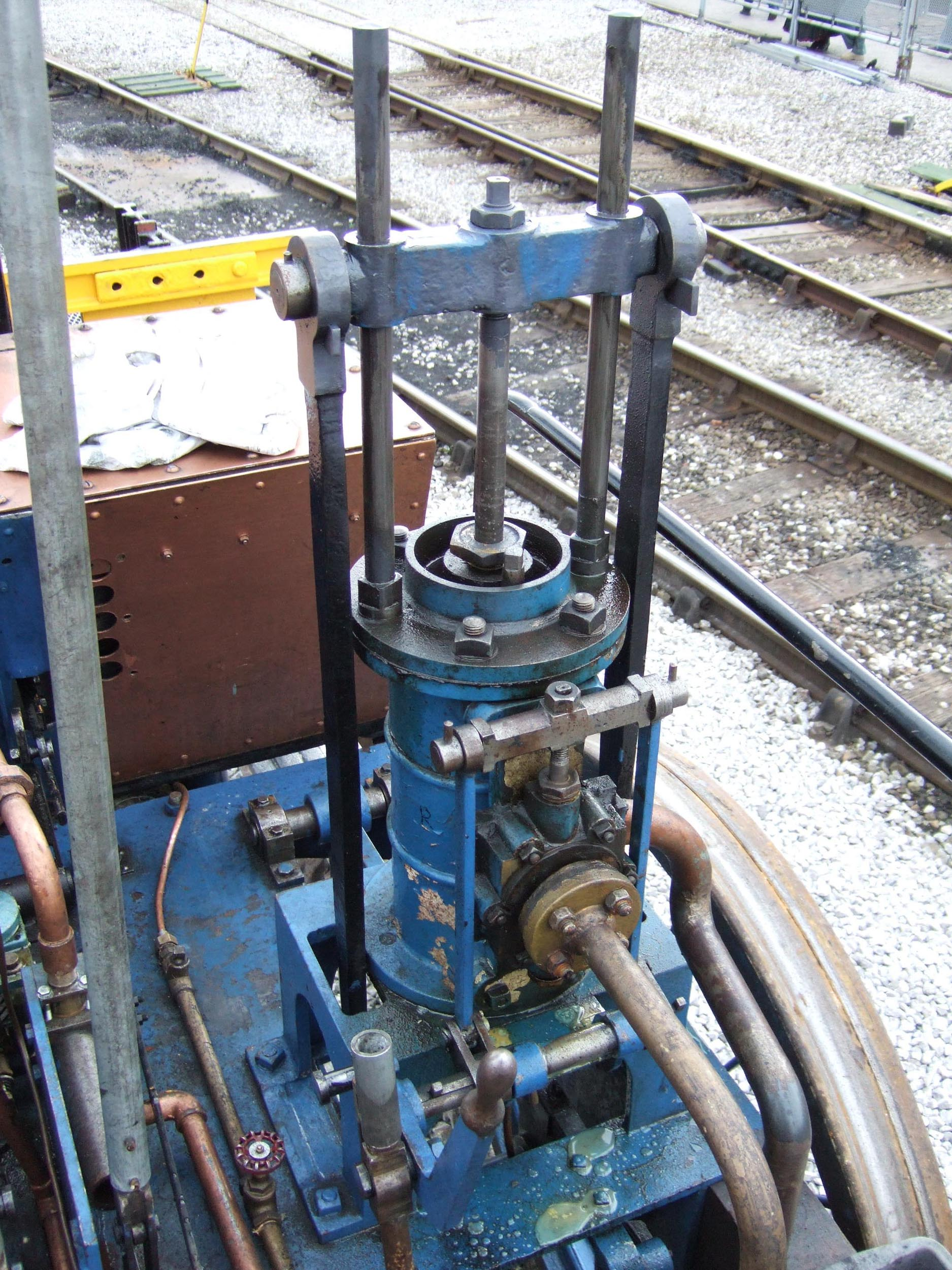 Details of the Cylinder on the working replica of Novelty. 17th September 2005 Photographer - A.M.Hurrell Camera - Fuji FinePix F10 Modified - Rotated and file size reduced using Adobe Photoshop 5.0LE